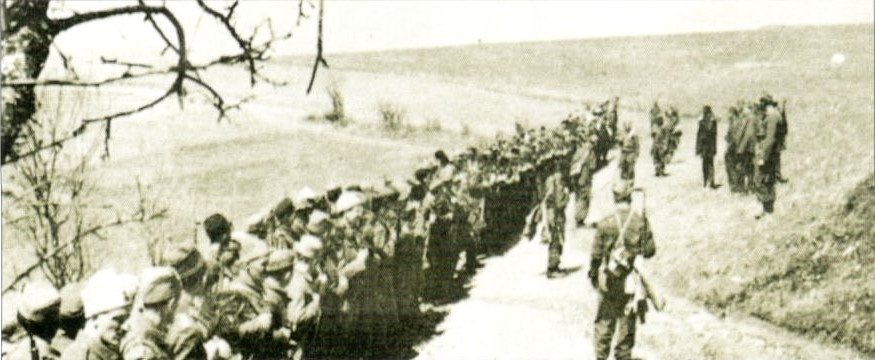 3rd Macedonian partisan brigade